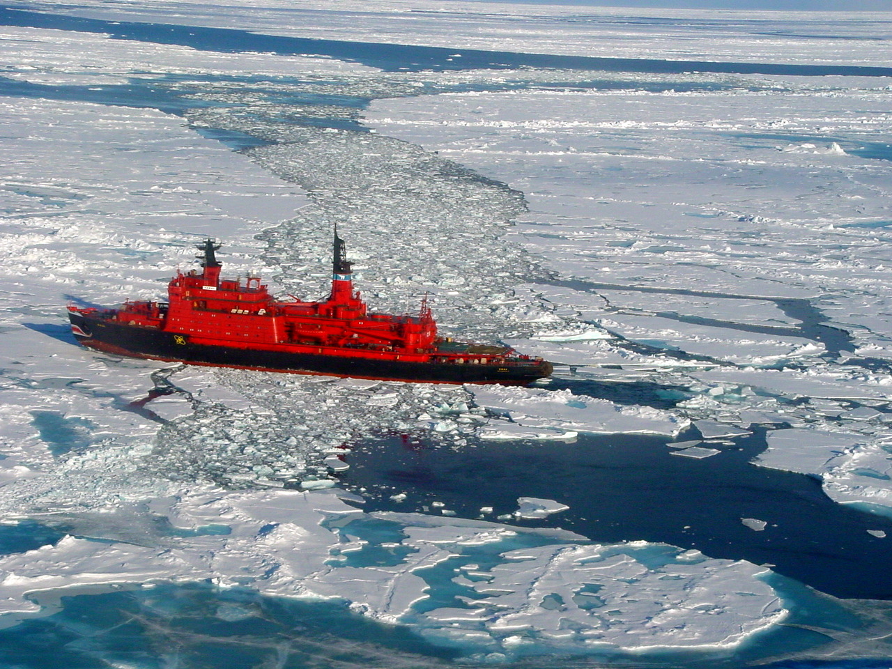 Nuclear icebreaker "Yamal" on its way to the North Pole, carrying 100 tourists.